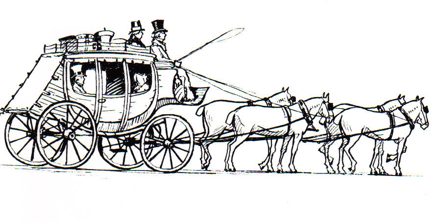 line art drawing of a coach.